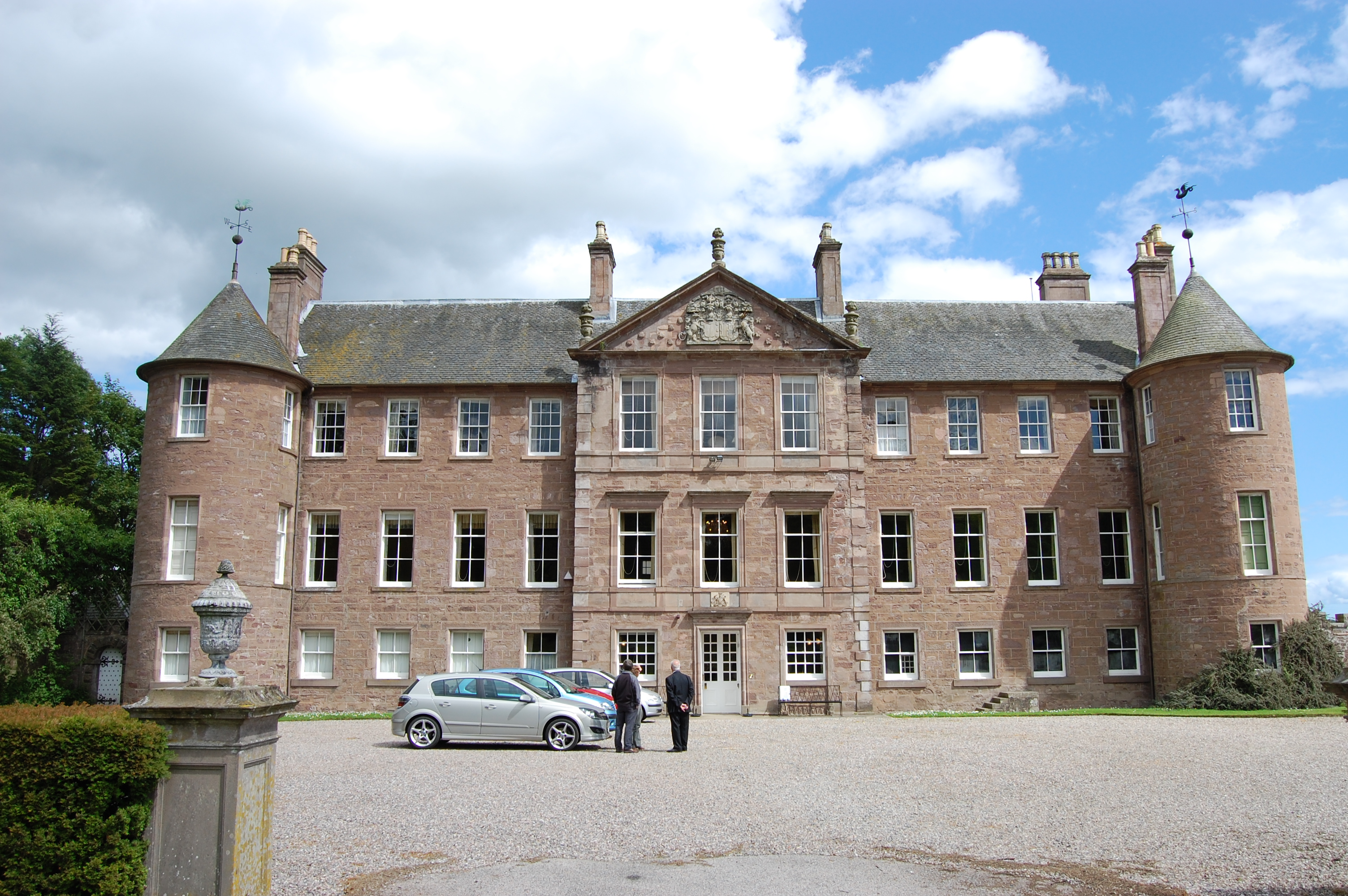 Brechin Castle, Front View